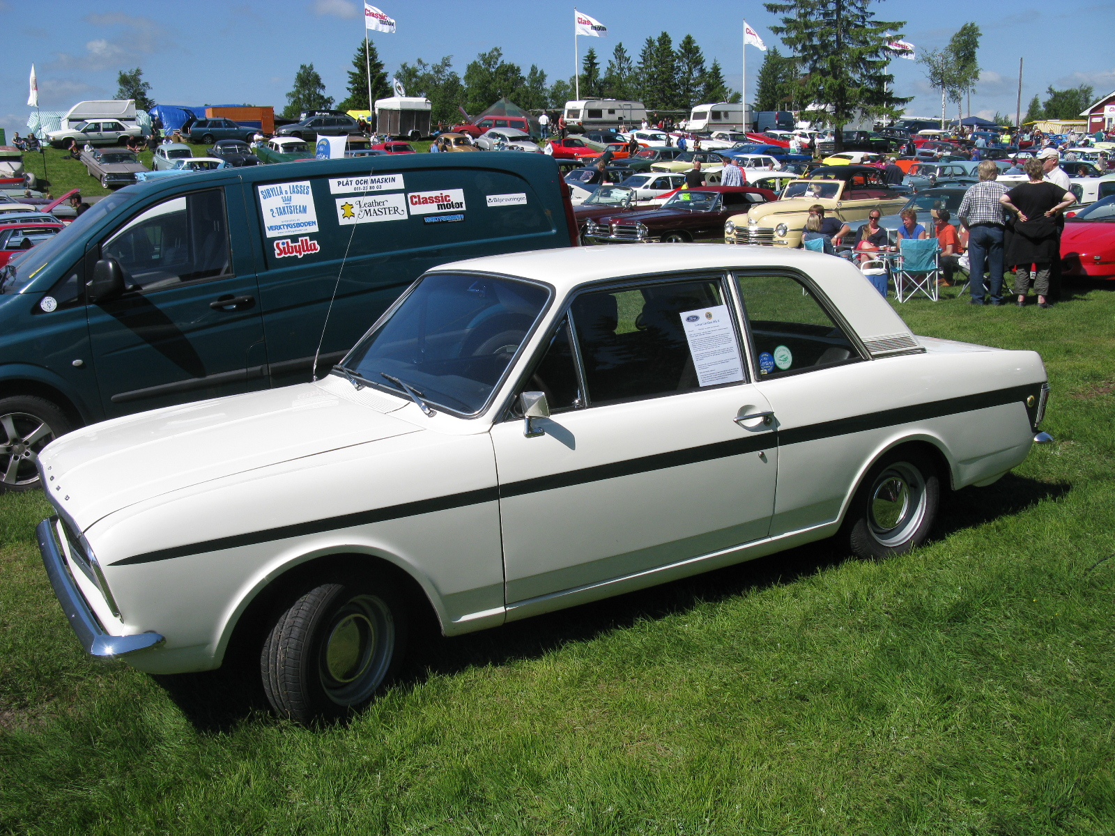 Ford Lotus Cortina Mk. 2